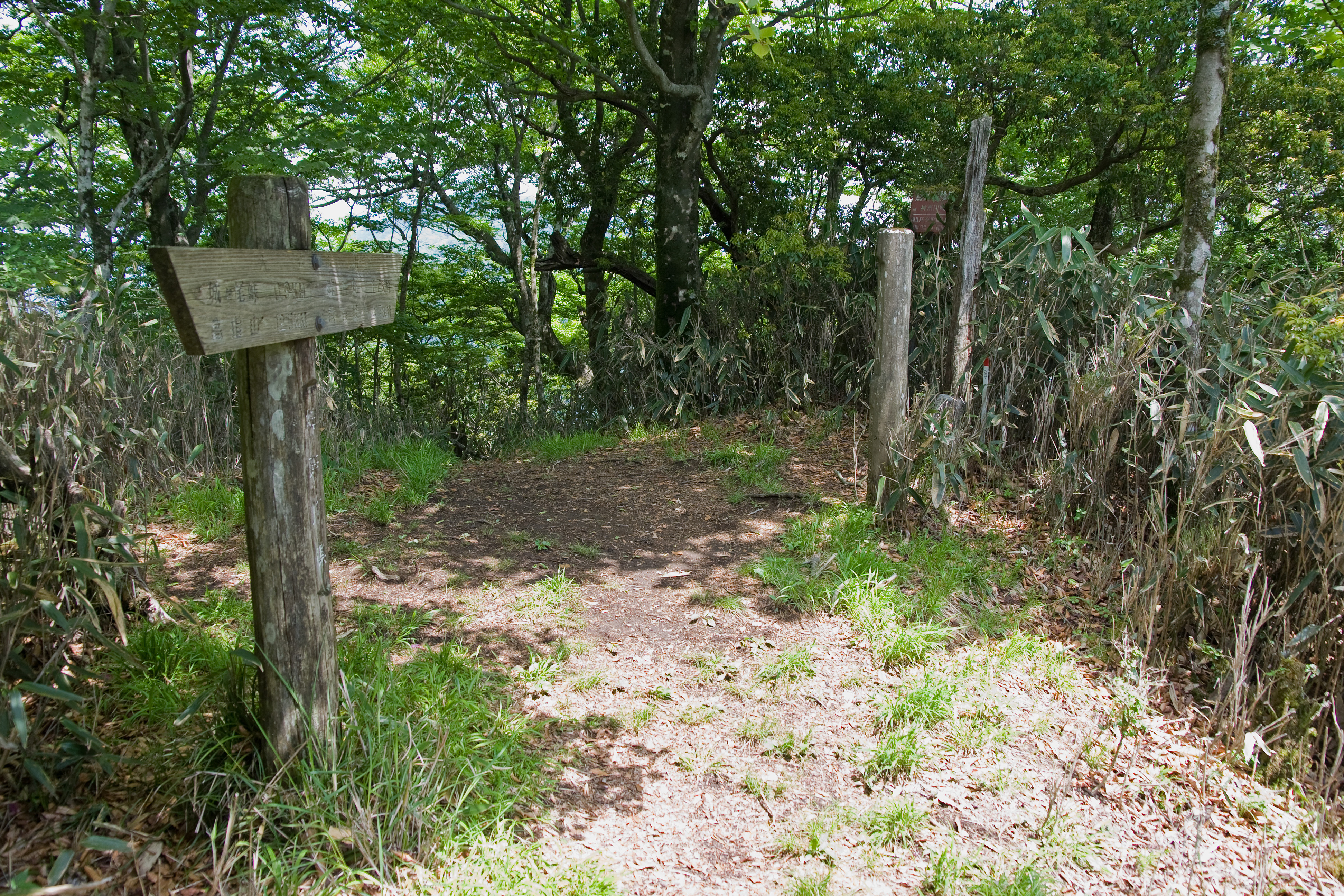 The summit of Mt.Daikaigi in Mts.Tanzawa, Kanagawa and Yamanashi Pref, Japan.